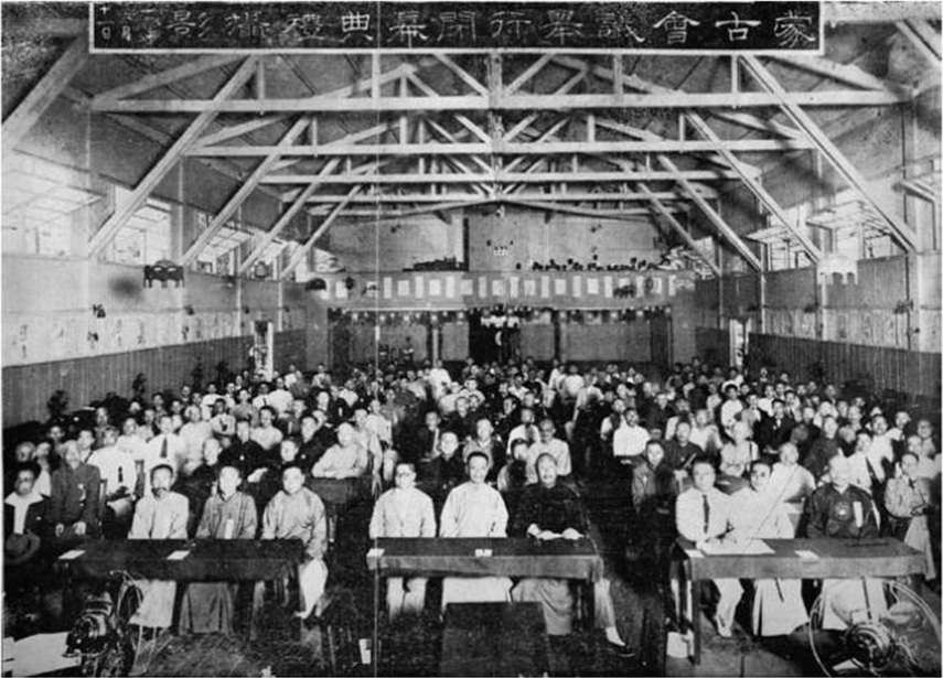 Mongolian Affairs closing conference, see Mongolian and Tibetan Affairs Commission. The photo was published in Menggu Huiyi Huibian in 1930, therefore it is in public domain after 50 years since publication.